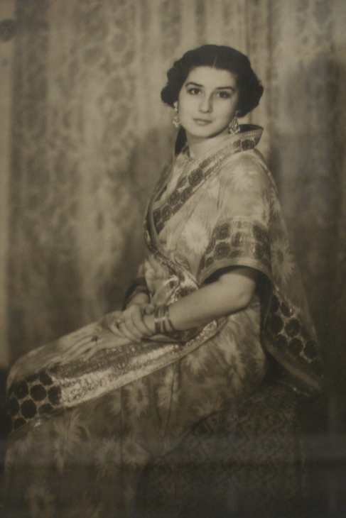 Portrait at Chowmahalla Palace, Hyderabad. March 2011.